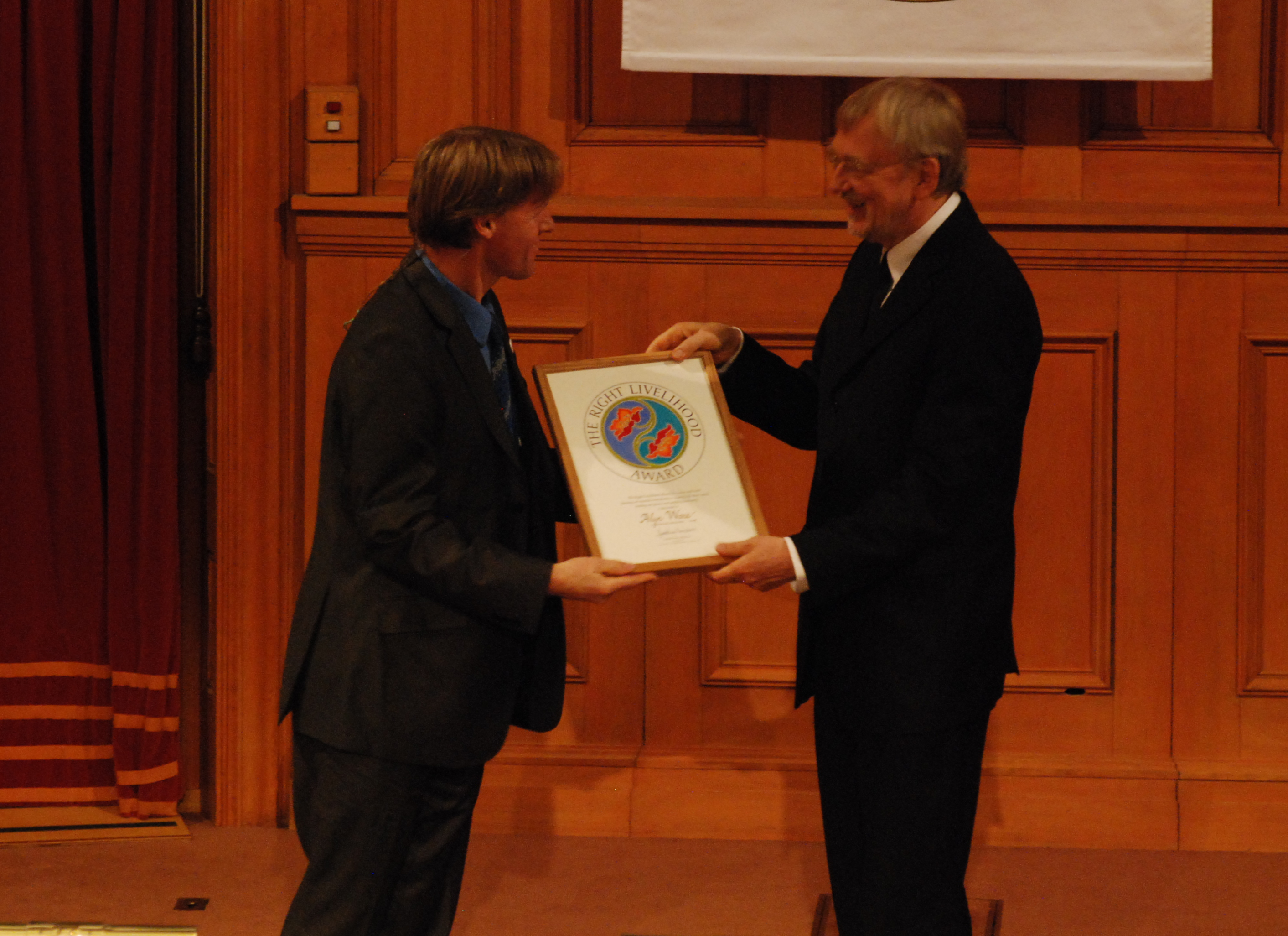 Award Ceremnony of the 30th Right Livelihood Award 2009: The prize is presented to Alyn Ware (m) by Jakob von Uexküll (r).